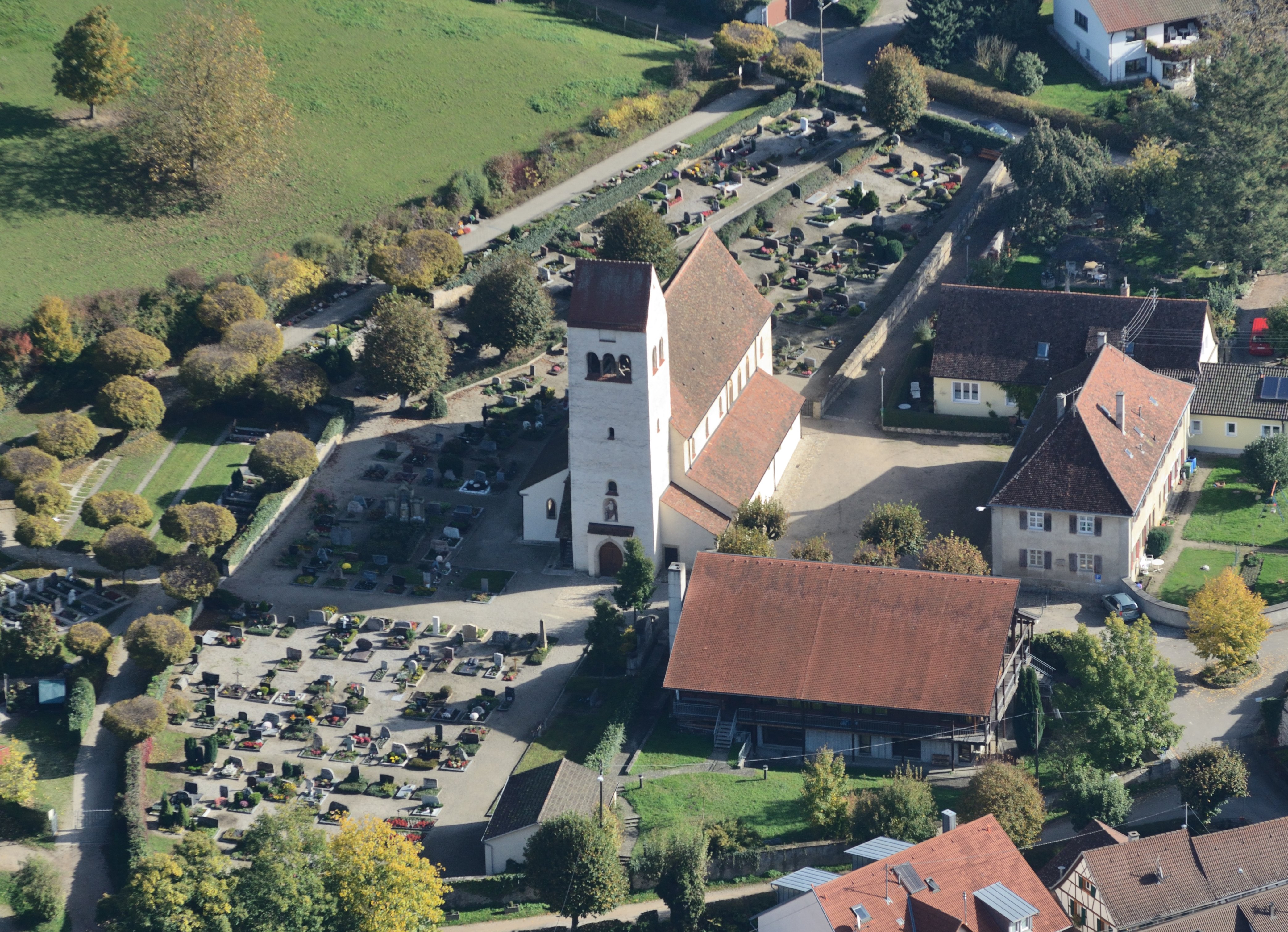 Aerial view at Saint Cyriak in Sulzburg